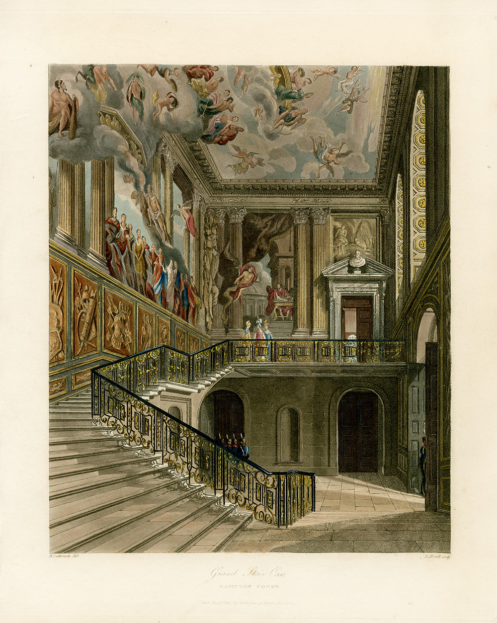 A view of the Grand Staircase at Hampton Court Palace